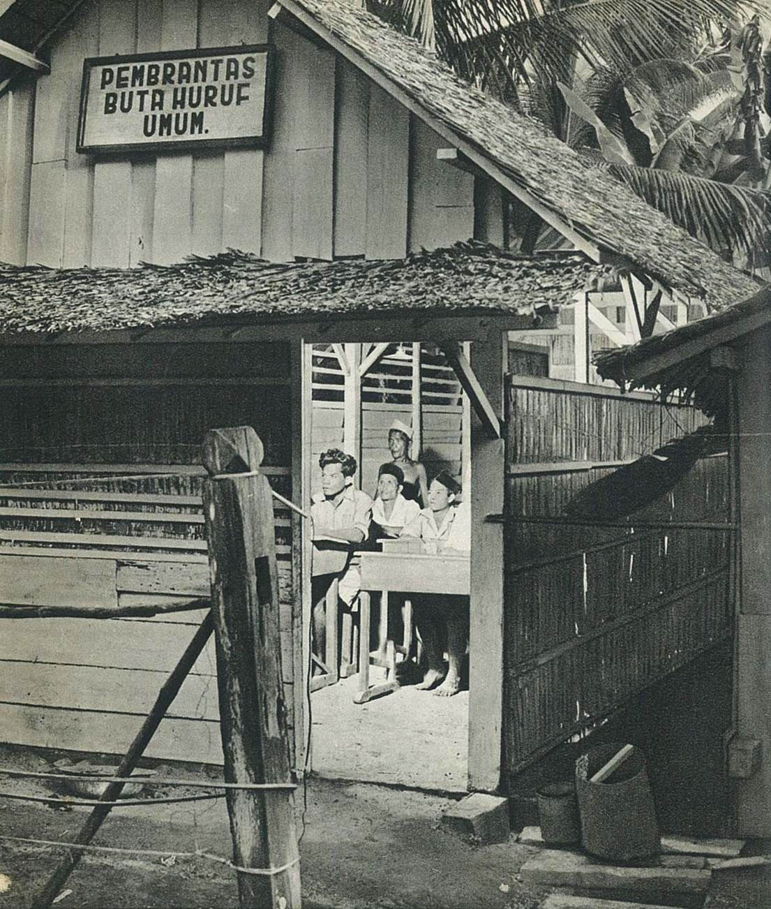 Schoolhouse for adults learning to read